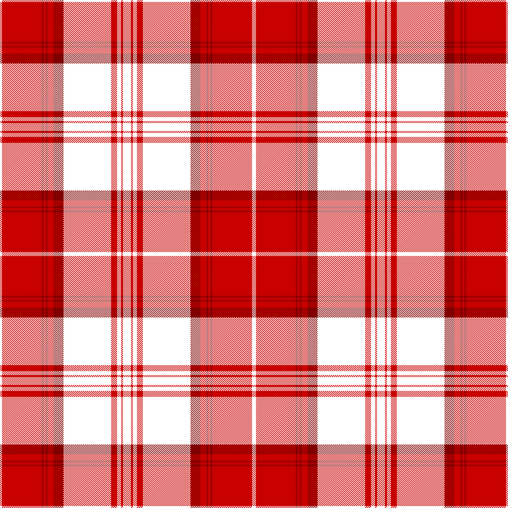 Menzies tartan, as published in the Vestiarium Scoticum. Modern thread count: W4 R40 Cr2 R2 Cr2 R6 Cr10 W48 R6 W4 R2 W8.